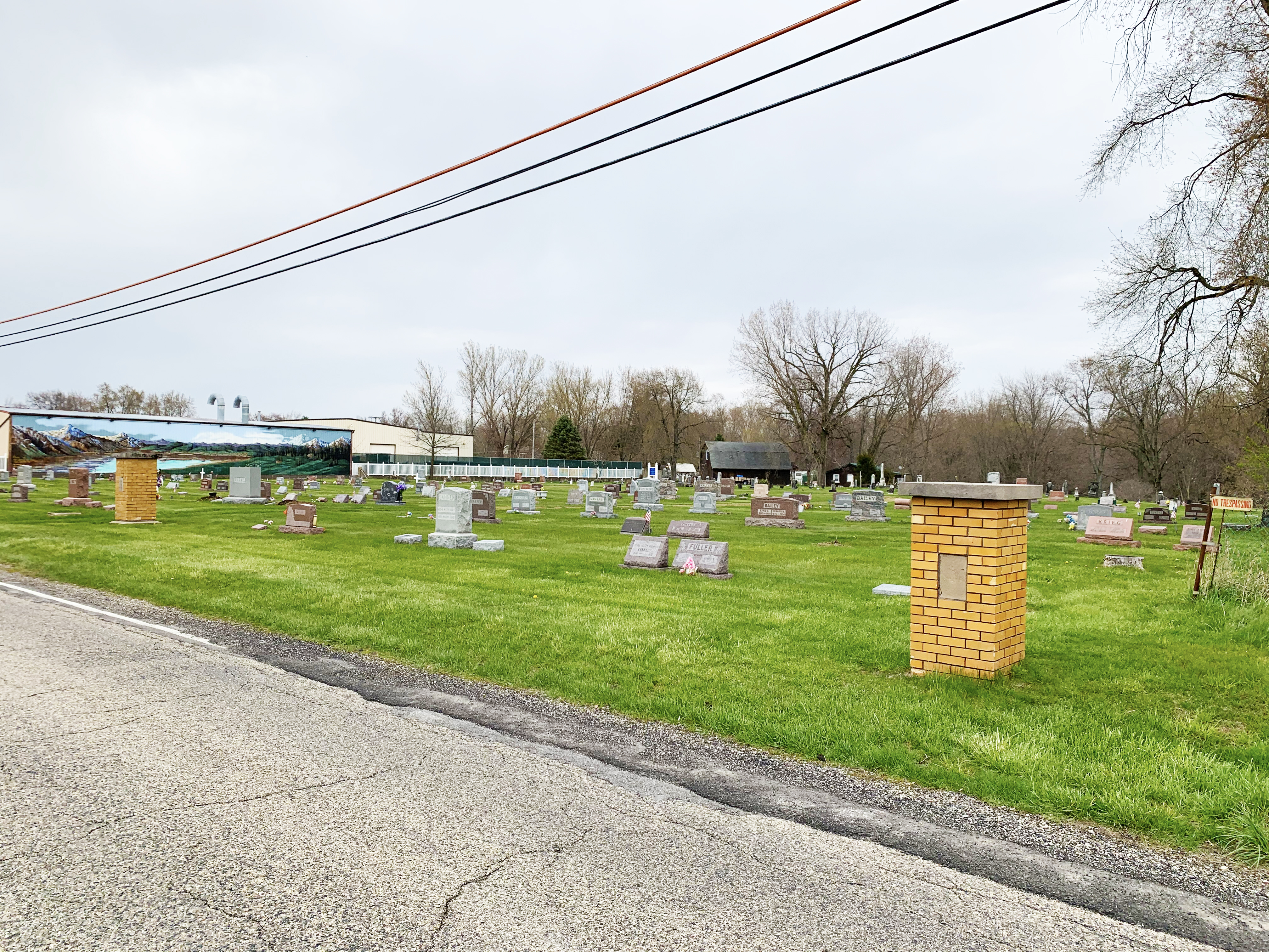 View of the Original Cemetery from the Southwest Corner.